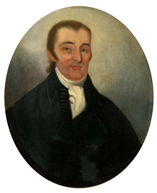 Depicted person: George William Smith – American politician